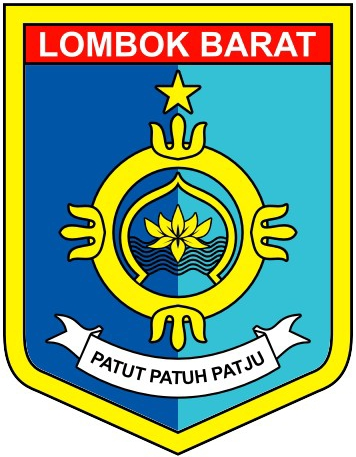 Coat of Arms (Lambang) of Regency (Kabupaten) West Lombok (Lombok Barat), Provinsi Nusa Tenggara Barat (West Lesser Sunda Islands Province), Indonesia